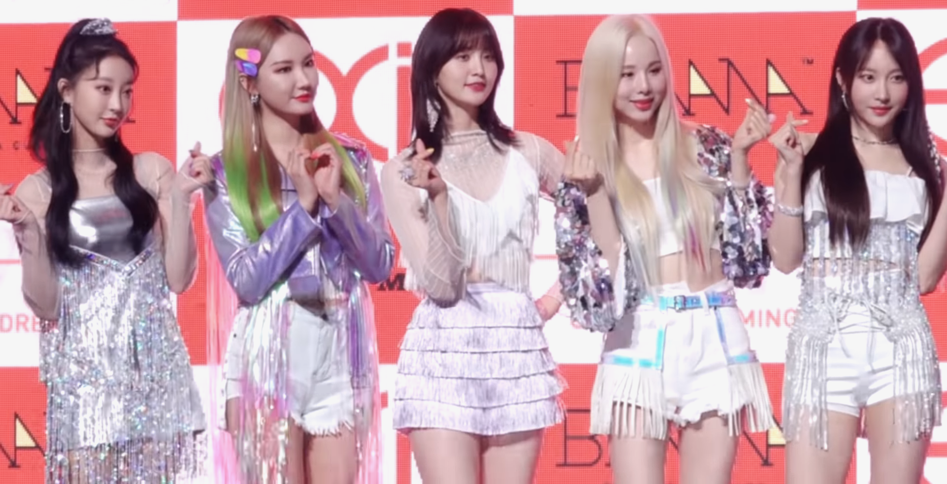 EXID in a showcase on May 15, 2019.